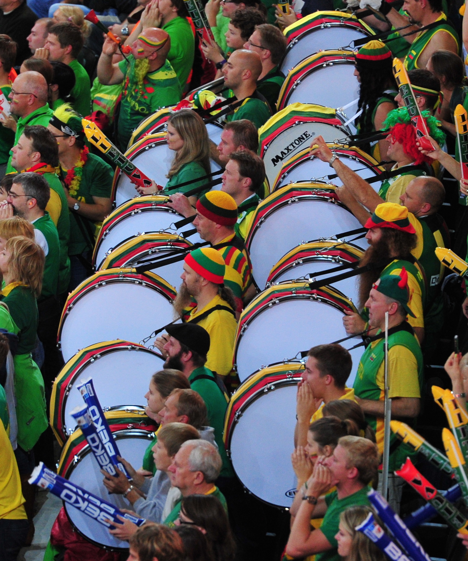 Lithuania basketball fans supporting their national team.